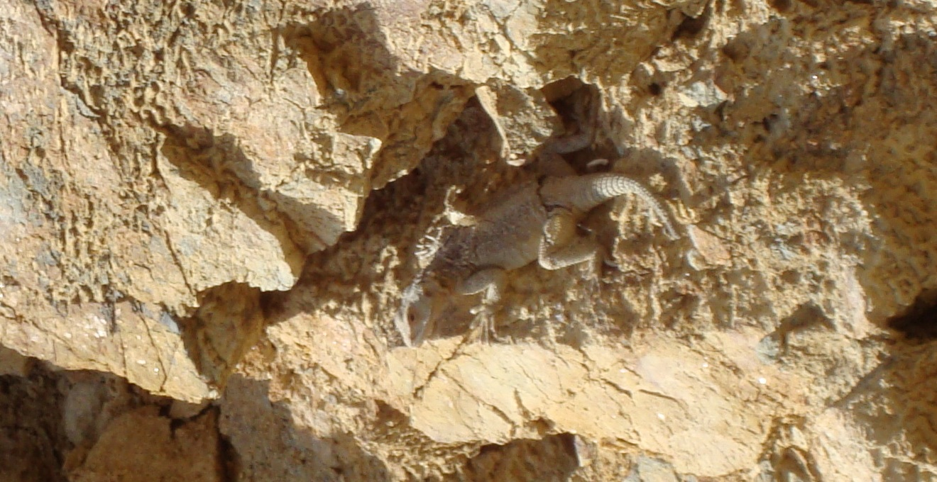 Lizard in the Republic of Mountainous Karabakh (Artsakh).